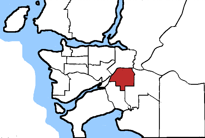 Map of the Surrey North electoral district. Based on Earl Andrew's maps, created by SimonP.